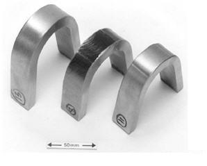 Bend test specimen